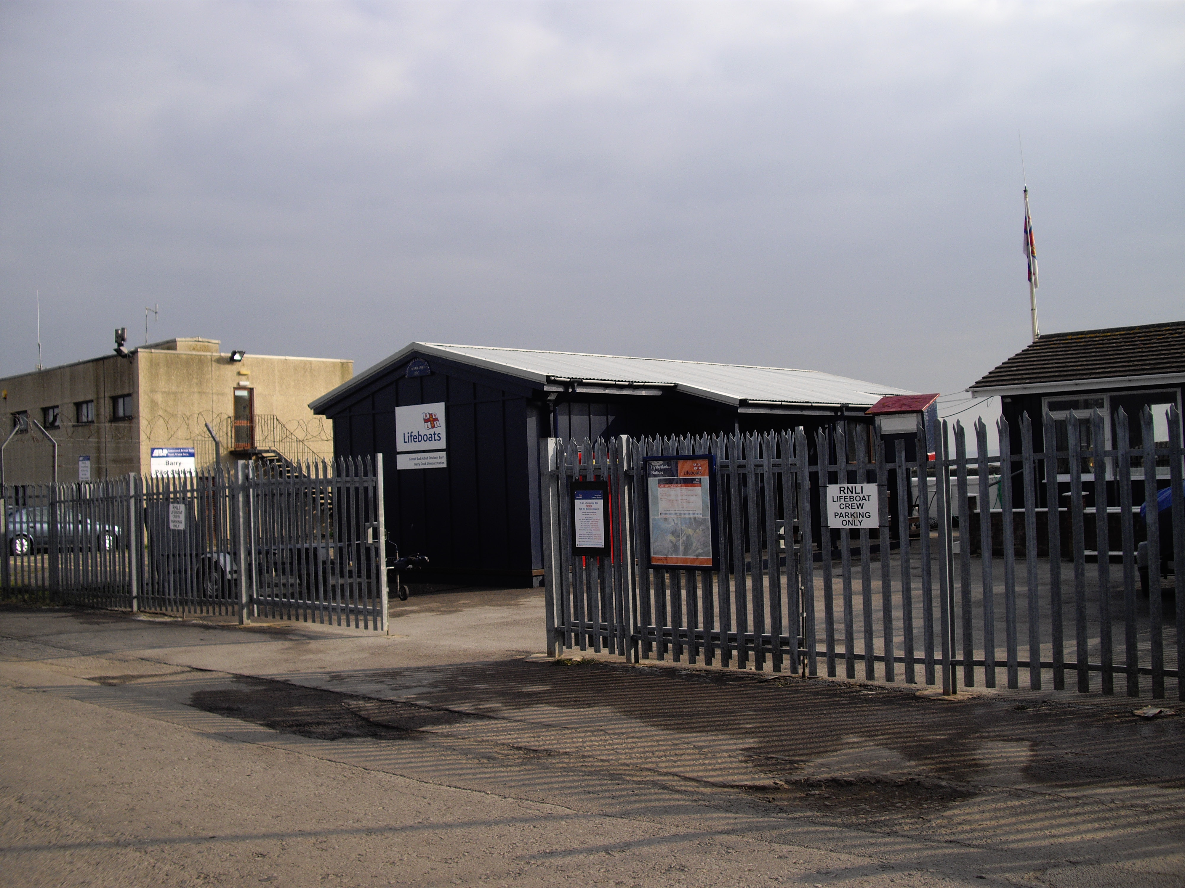 Lifeboat Station, Barry Island, Data from Geograph: Description: ST1266 :: Lifeboat Station, Barry Island, near to Barry Island, The Vale of Glamorgan/Bro Morgannwg, Great Britain ICBM: 51.392900333117, -3.2614471335911 Location: (about 0 km from) near to Barry Island, The Vale of Glamorgan/Bro Morgannwg, Great Britain.